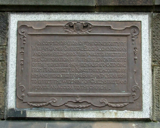 Plaque on King Street